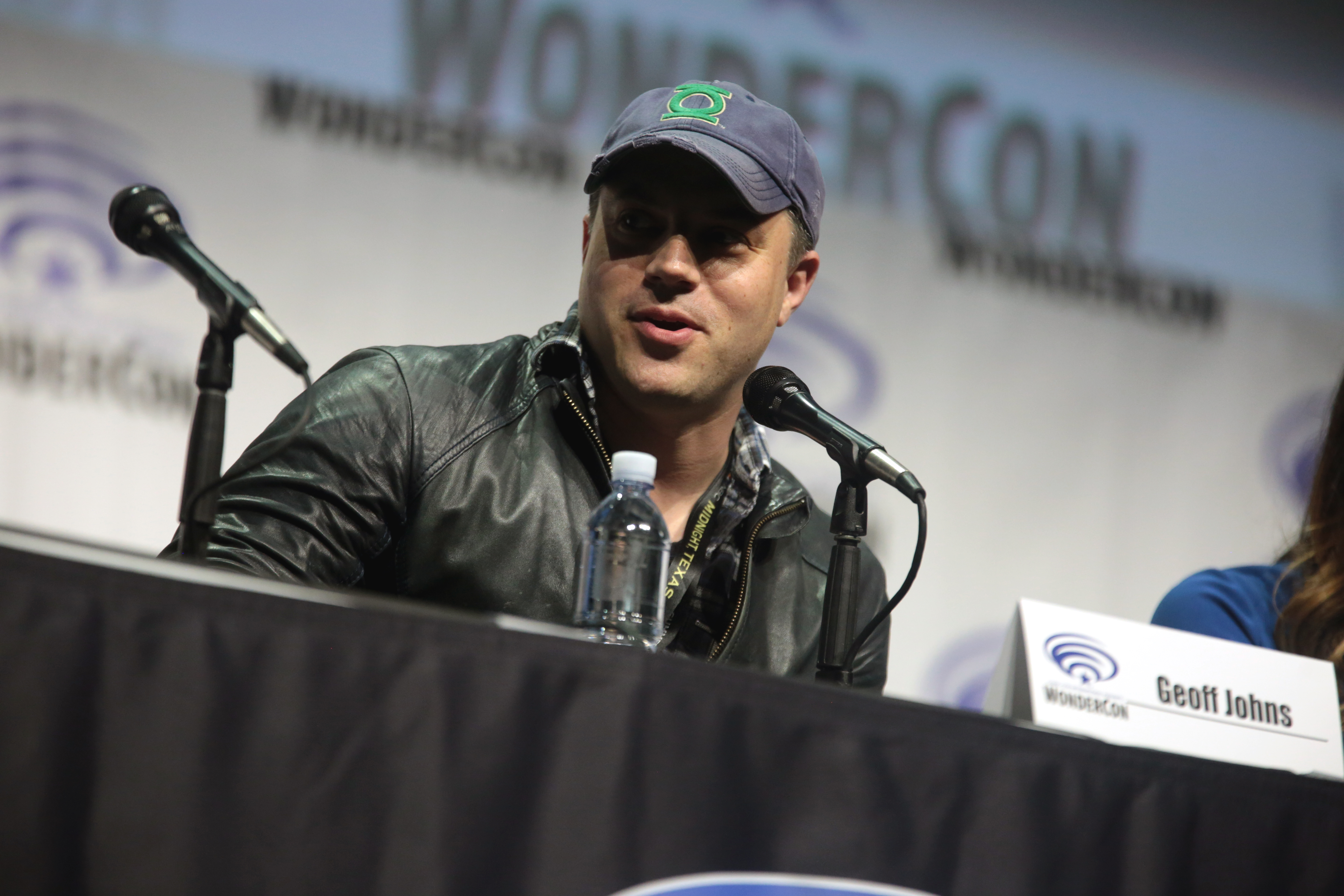 Geoff Johns speaking at the 2017 WonderCon, for "Wonder Woman", at the Anaheim Convention Center in Anaheim, California.